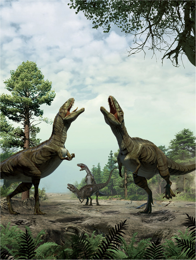 Figure 6: Reconstruction of Acrocanthosaurus engaged in scrape ceremony display activity, based on trace fossil evidence from the Dakota Sandstone, Colorado. Artwork and graphics coordination by Xing Lida.